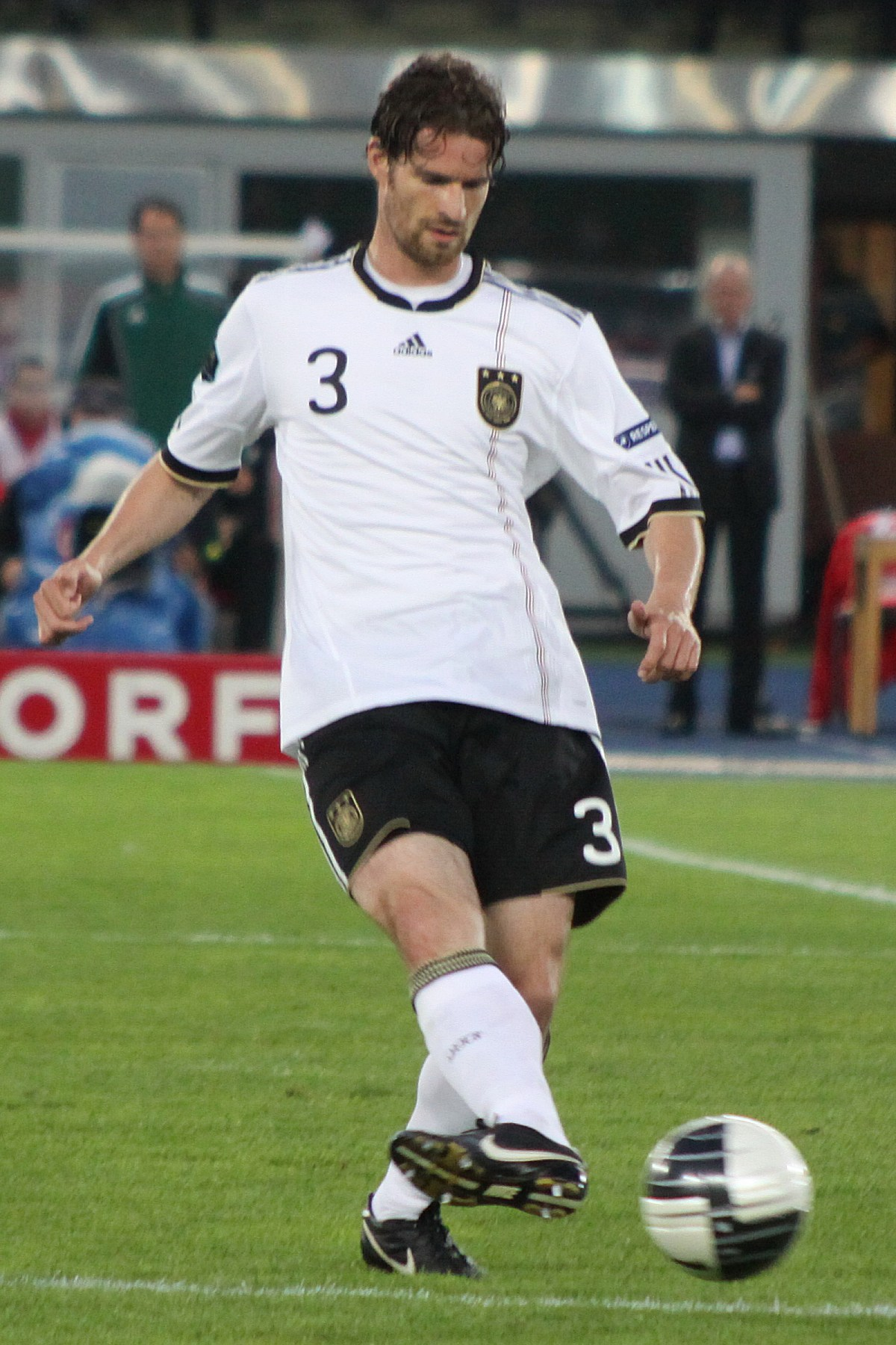 Arne Friedrich (VfL Wolfsburg), german national football team